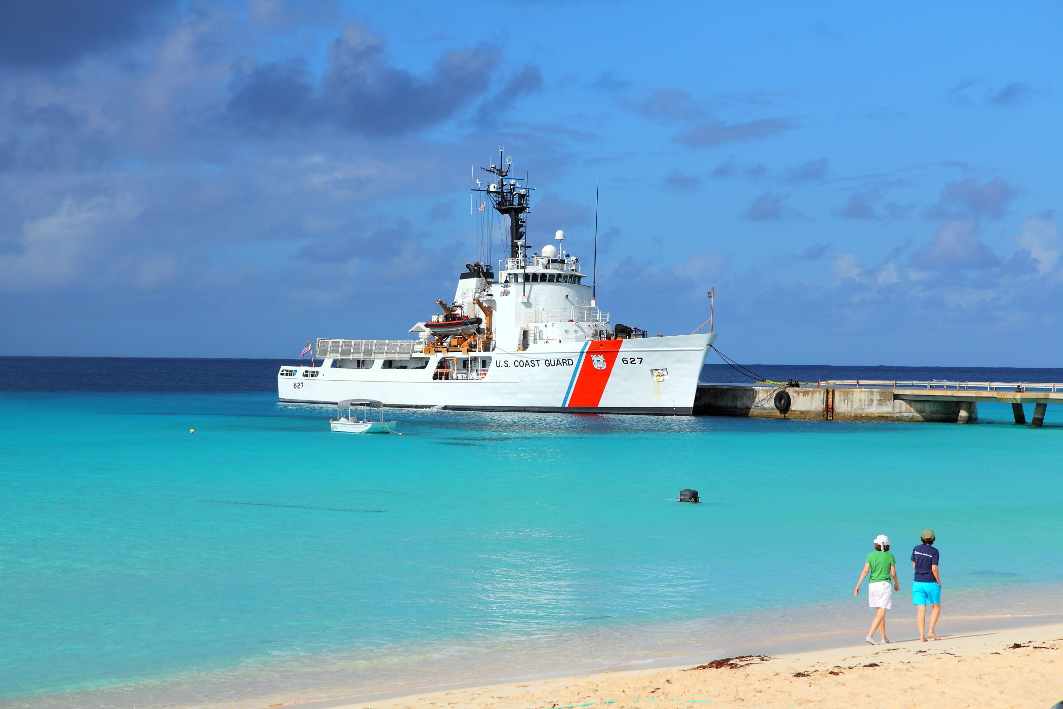 The 210-foot Coast Guard Cutter Vigorous, homeported in Cape May, N.J., is moored along a pier at Grand Turk, in the Turks and Caicos Islands, Monday, Dec. 5, 2011. Medium endurance cutters like the Vigorous are built for multi-week offshore patrols including operations requiring enhanced communications, and helicopter and pursuit boat operations, which provide a key capability for homeland security missions at sea.